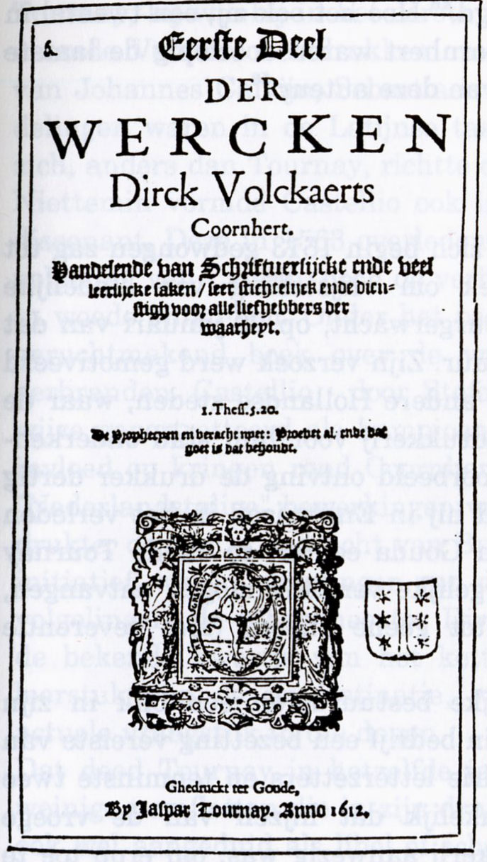 Titlepage of The First part of the Works of Dirck Volckaerts Coornhert: Of the authorship of many significant and instructive things, very edifying and useful for all lovers of truth, by Jasper Tournay.